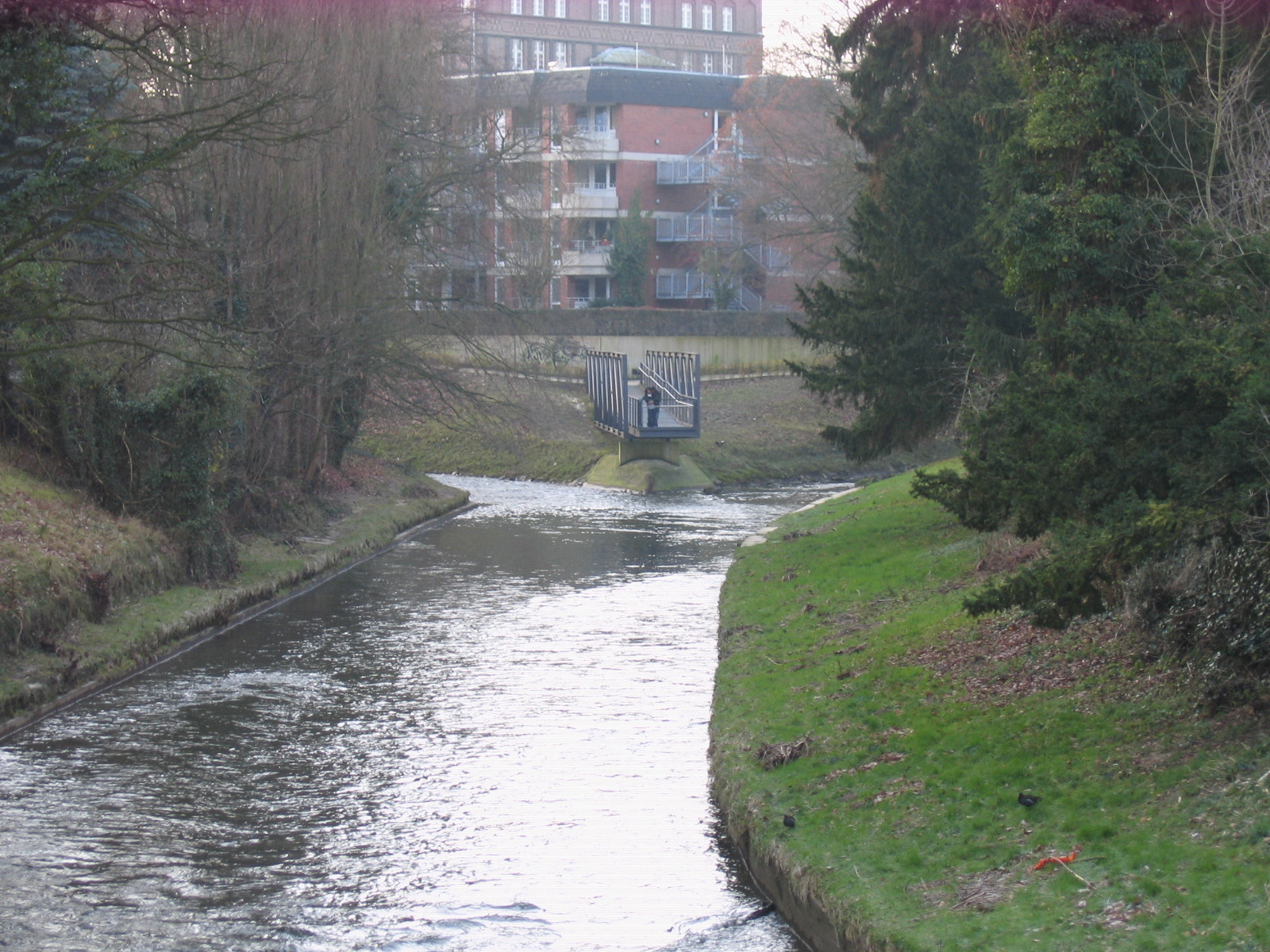 Aaa and Werre confluence in Herford, District of Herford, North Rhine-Westphalia, Germany.